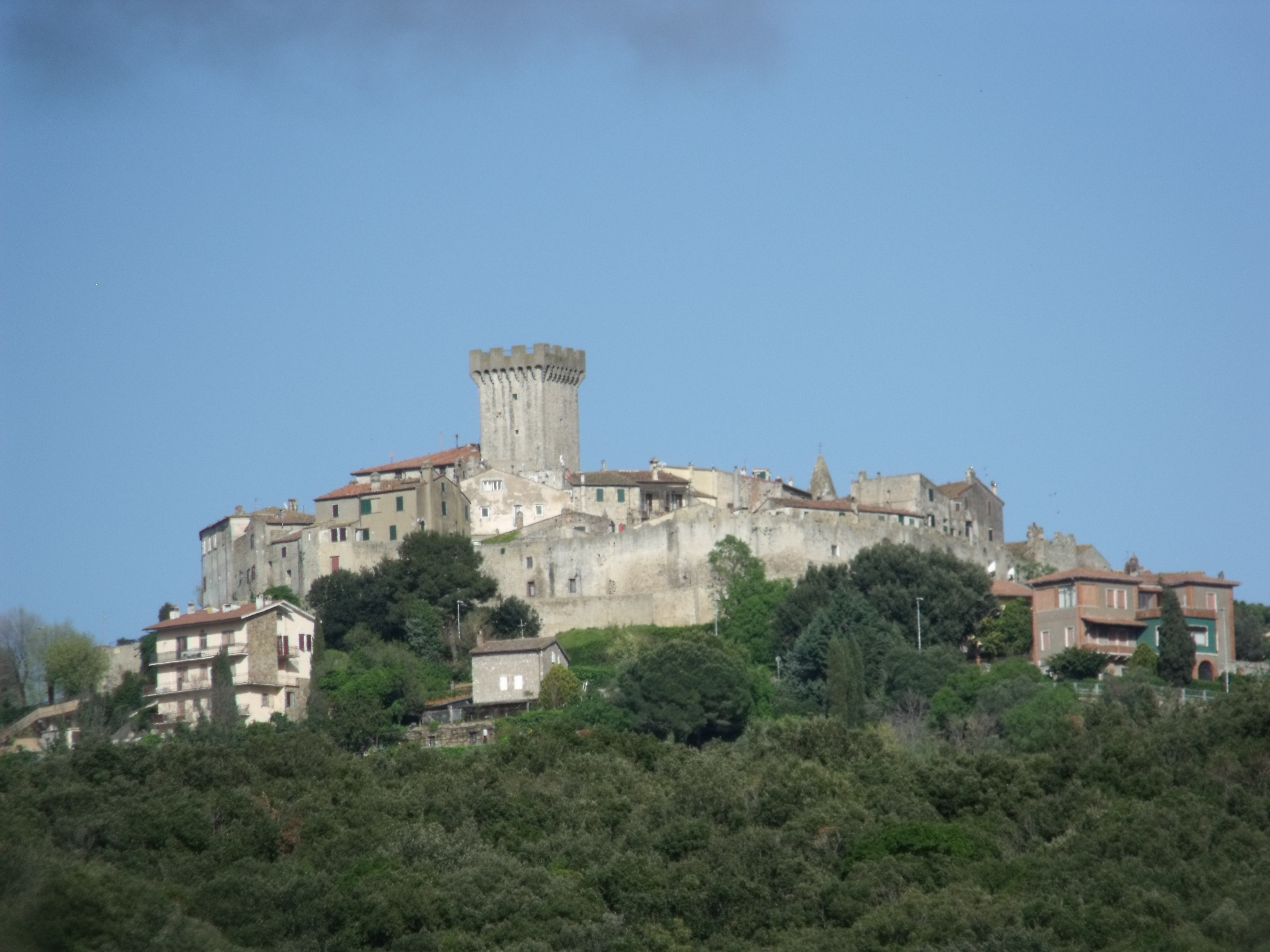 Panorama of Capalbio, Maremma, Province of Grosseto, Tuscany, Italy